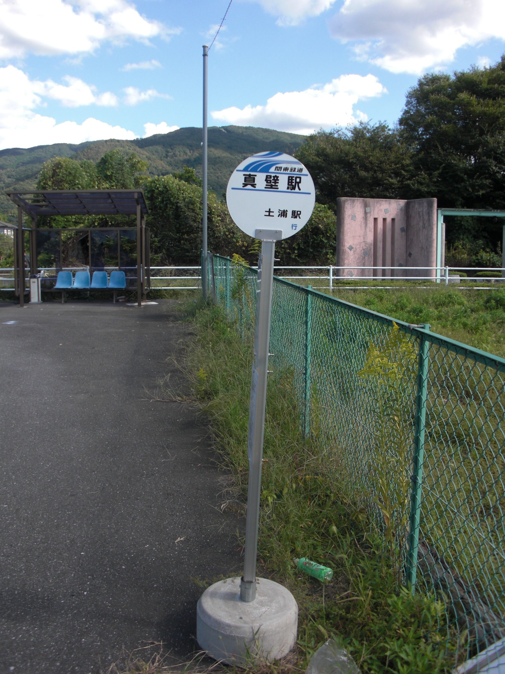 Makabe Station Bus Stop in Sakuragawa City, Ibaraki Prefecture, Japan